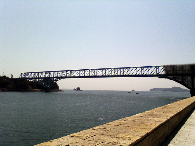 Kamagari Bridge, Hiroshima, Japan